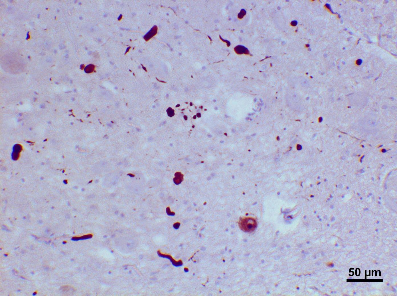 Photomicrograph of a region of substantia nigra in a Parkinson's patient showing Lewy bodies and Lewy neurites. The 20 × magnification image shows strand-like Lewy neurites and rounded Lewy bodies of various sizes. Neuromelanin laden cells of the substantia nigra are visible in the background. Stains used: mouse monoclonal alpha-synuclein antibody; counterstained with Mayer's haematoxylin.